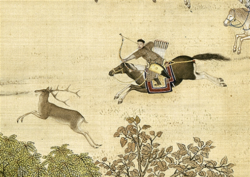 Qianlong Emperor 's hunting journey on horseback